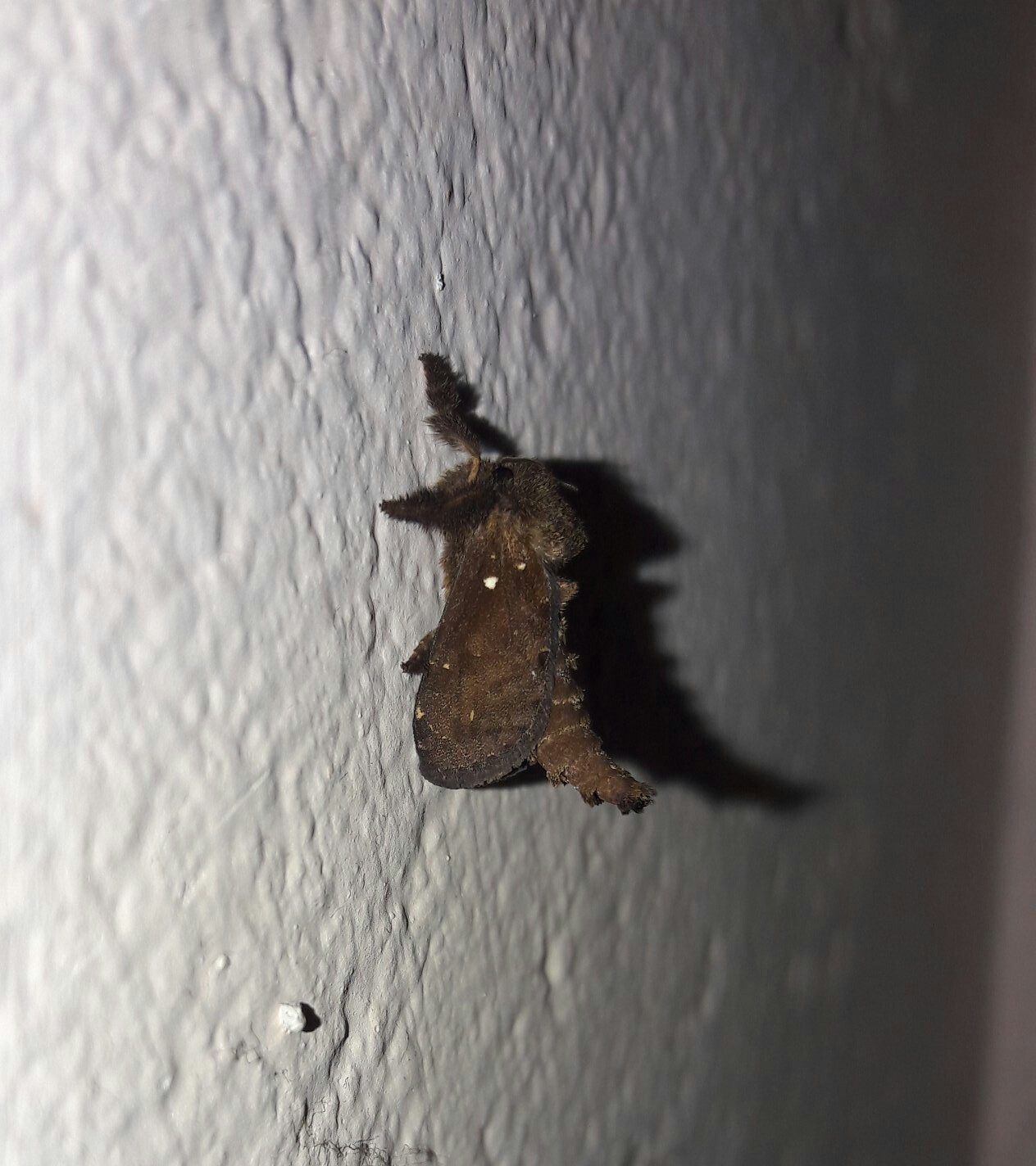 Palpifer moth, the first recorded image of this moth from Indian subcontinent, south of Himalayas